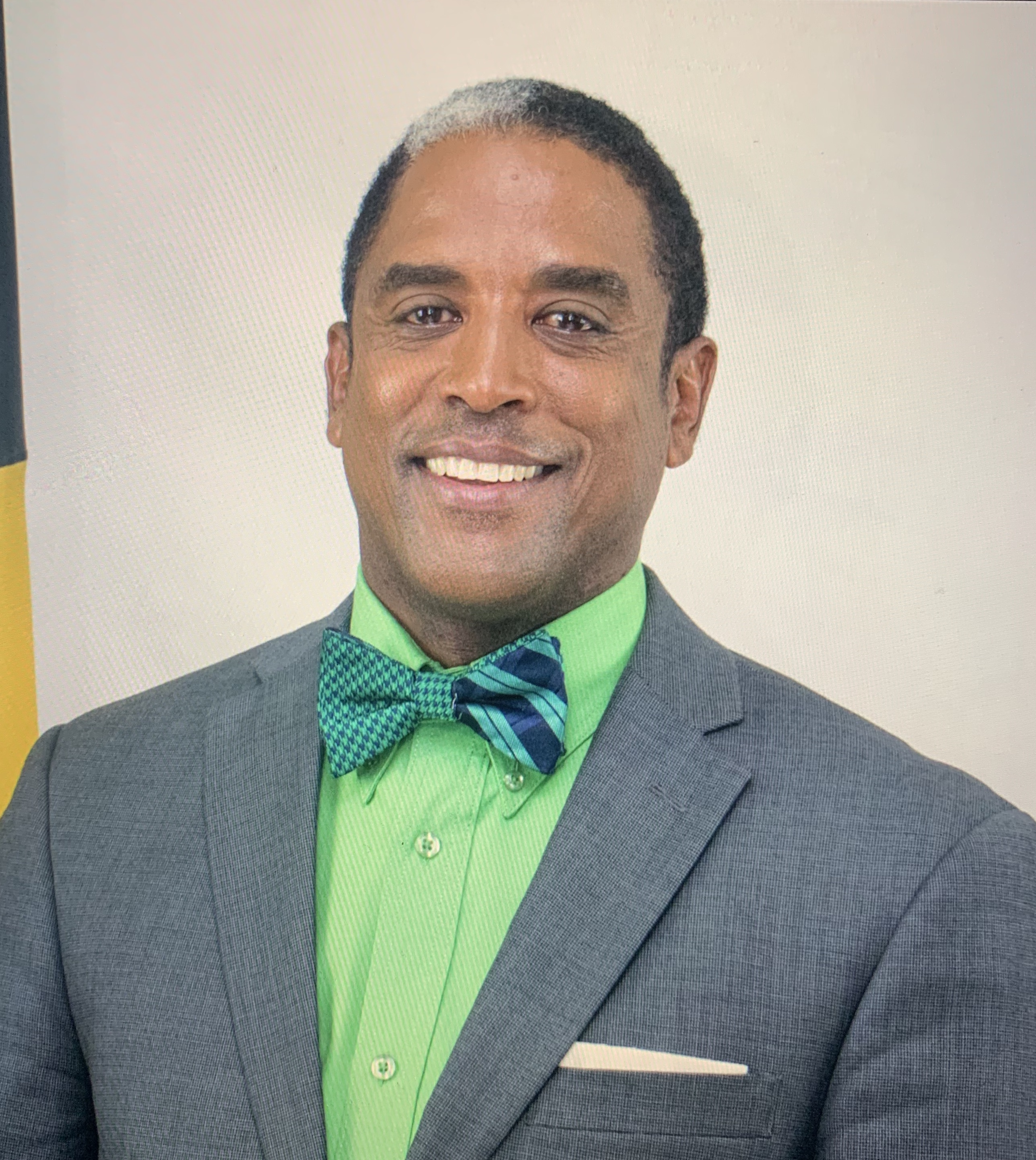 NormanDunn_Jamaica